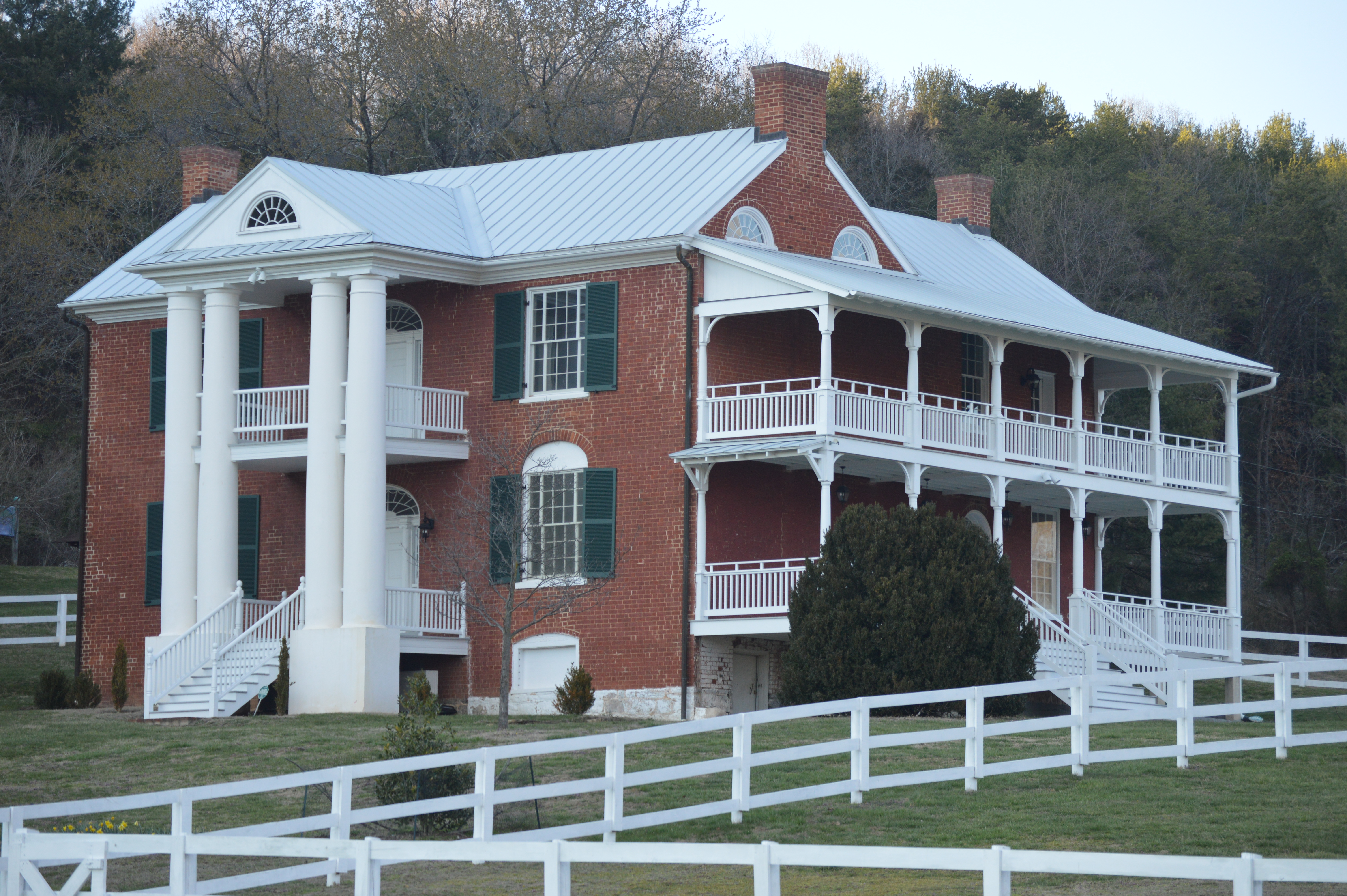 Front and southwestern side of Glen Maury, located in Glen Maury Park just west of Buena Vista in Rockbridge County, Virginia, United States. Built in 1832, it is listed on the National Register of Historic Places.